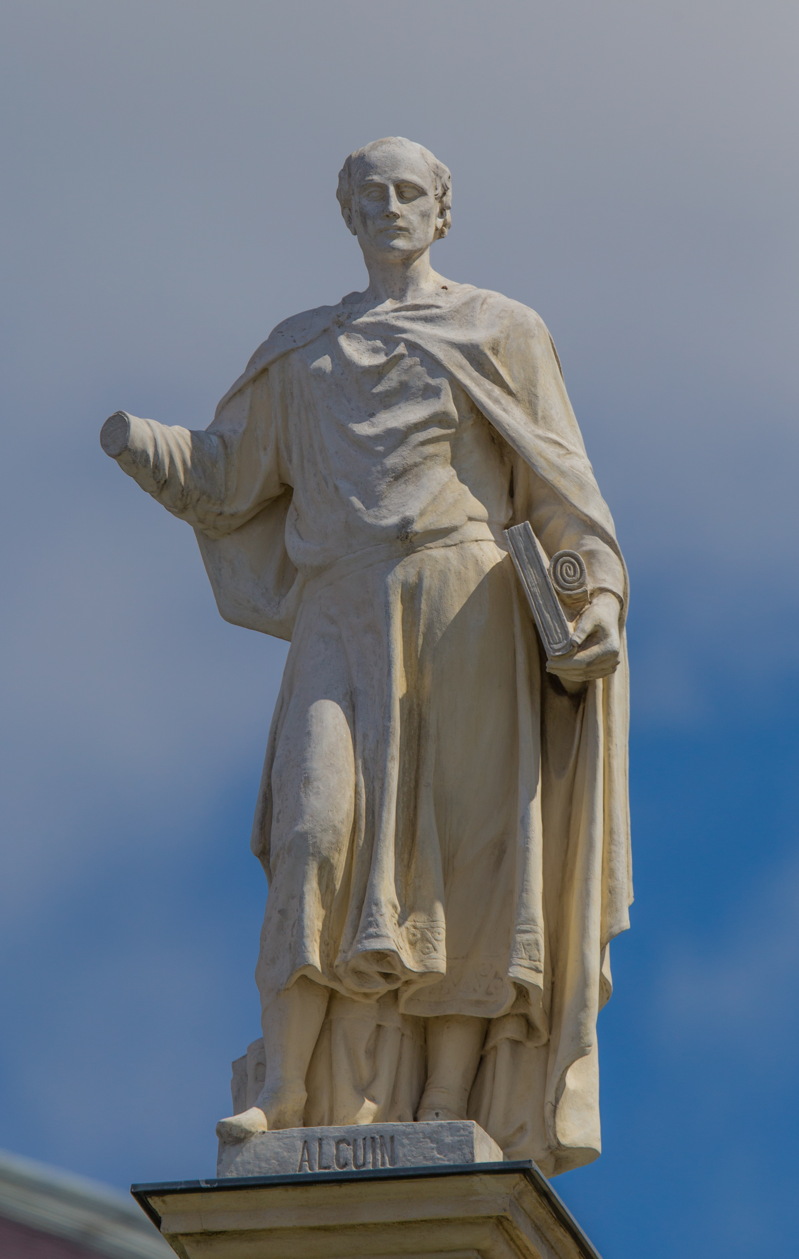 Kunsthistorisches Museum in Vienna Figures on the roof The making of this work was supported by Wikimedia Austria. For other files made with the support of Wikimedia Austria, please see the category Supported by Wikimedia Österreich.